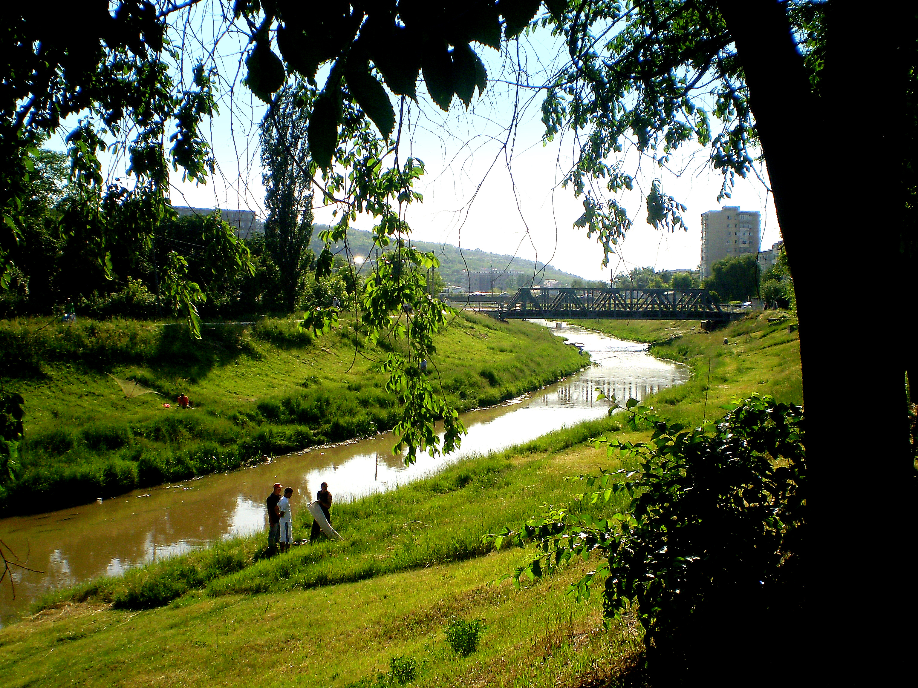 Iasi , river Bahlui , Iaşi, Romania